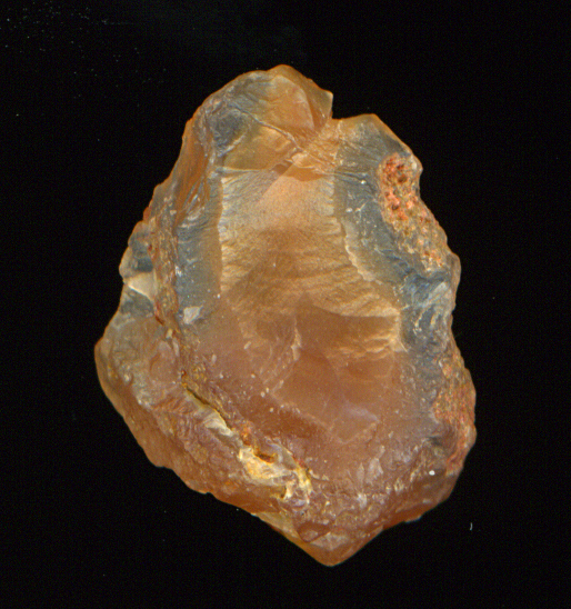 Sea glass picked up on the beach in Scotland